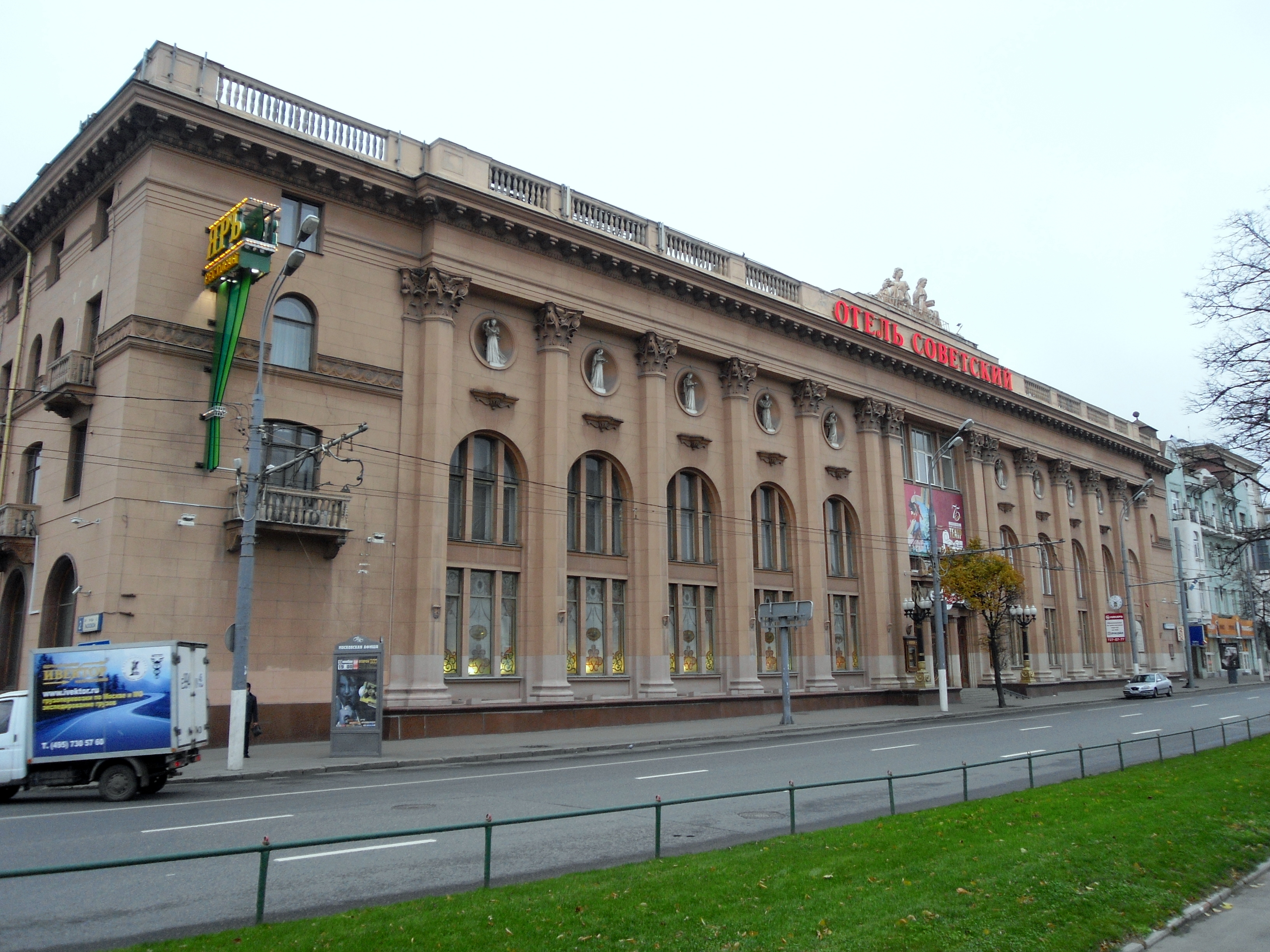 Historical hotel "Sovietsky" in Moscow